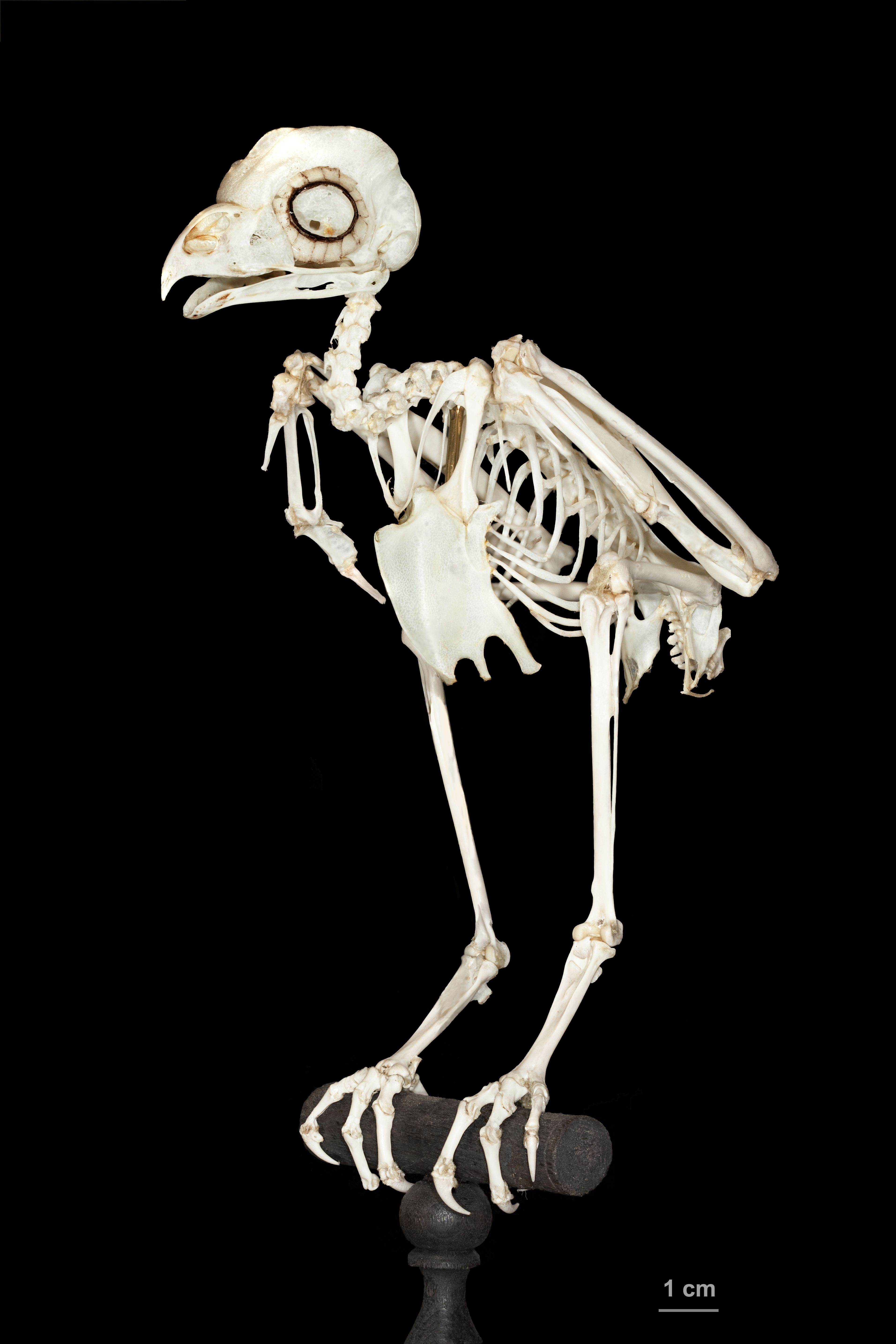 Skeleton of Strigidae. Naturalist: Nérée Boubée. Museum of Toulouse Native nameMuséum de ToulouseLocationToulouse, FranceCoordinates43° 35′ 38″ N, 1° 26′ 57″ E Established1796: established ; 1865: opened to publicWeb page control : Q422 VIAF: 130895847 ISNI: 0000 0001 2158 3469 SUDOC: 028667107 BNF: 120455376 Museofile: M7013 MHNT.ZOO.2010.9.1